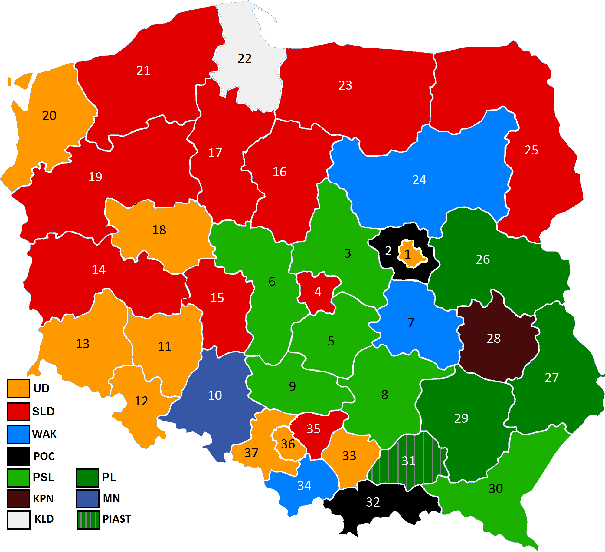 Polish parliamentary election, 1991, by 1975-1998 voivodships. Democratic Union (UD) Democratic Left Alliance (SLD) Polish People's Party Program Alliance (PSL) Catholic Electoral Action (WAK) Peasants' Agreement (PL) Civic Center Alliance (POC) Liberal Democratic Congress (KLD) Confederation of Independent Poland (KPN) "Piast" Peasant Election Alliance (striped) German Minority